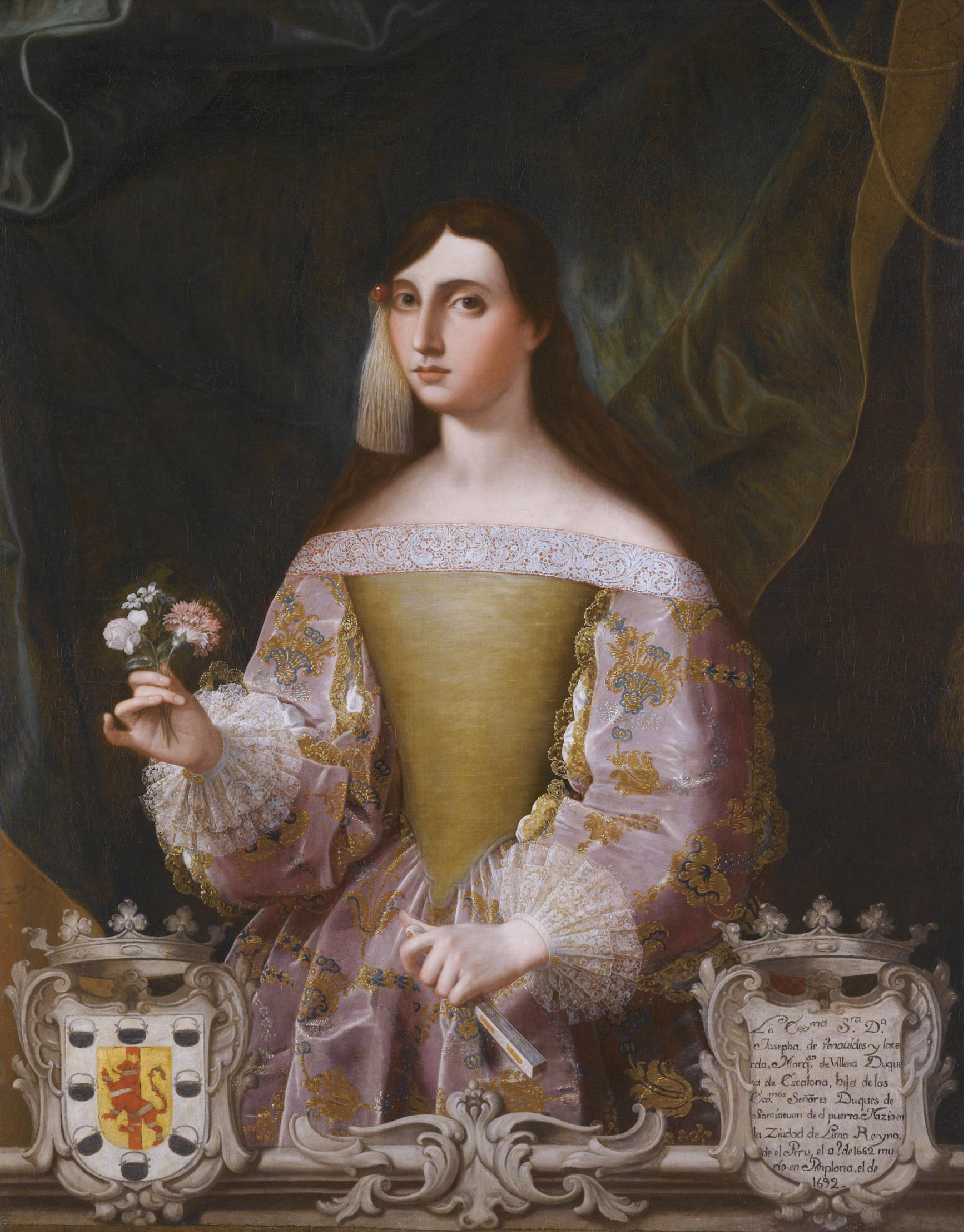 Portrait of Doña Josefa Benavides (1662-1692), Marquesa de Villena, wife of Don Juan Manuel López Pacheco (1648-1725), 8th Duke of Escalona and 8th Marquis of Villena